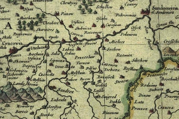 Tuszyma 1626